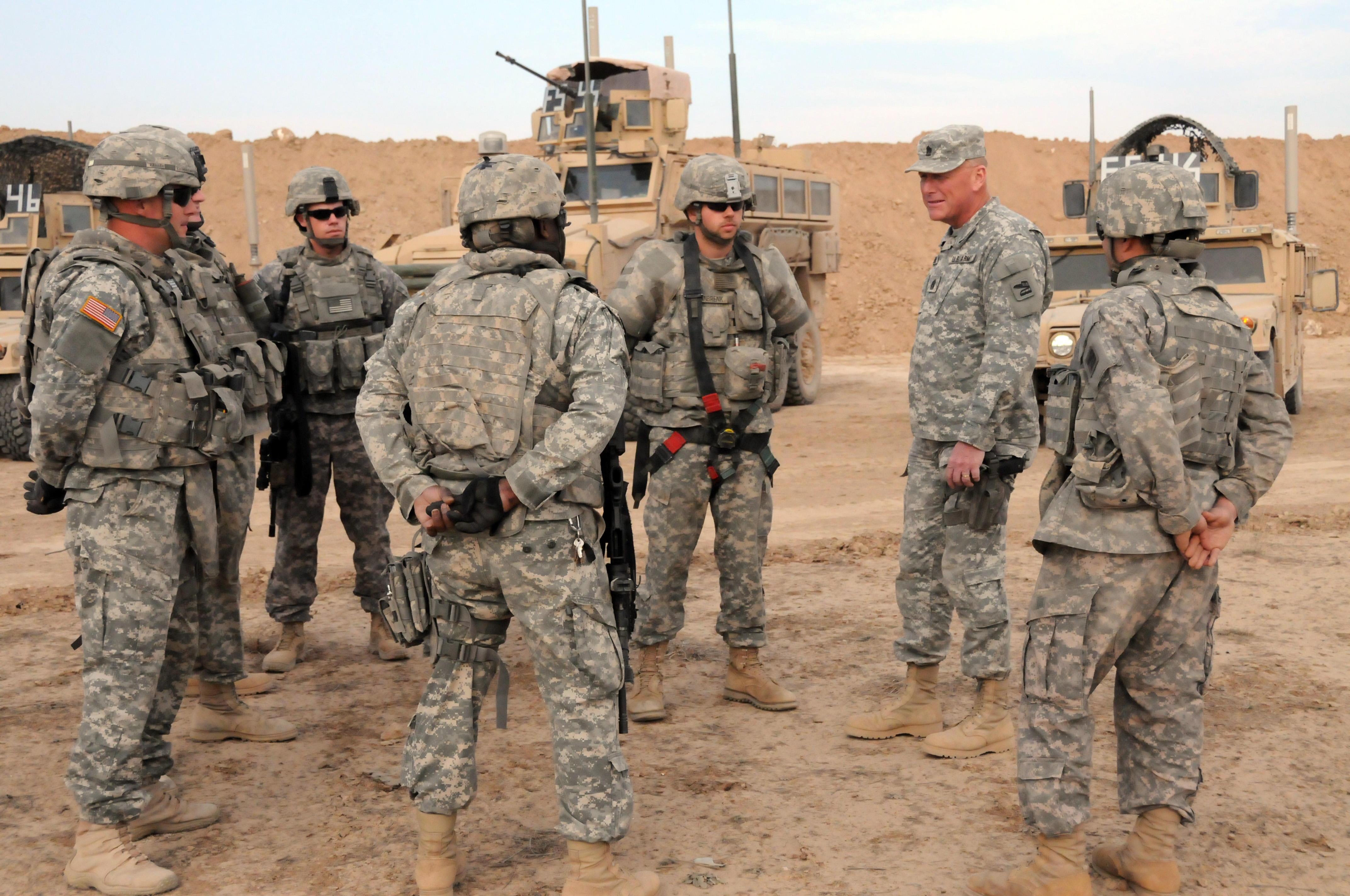 Command Sgt. Maj. Robert Sweeney, the command sergeant major for 81st Brigade Combat Team, Washington Army National Guard, speaks to Soldiers from the 81st Brigade Special Troops Battalion, 81st BCT, during training Feb. 6 at Contingency Operating Base Q-West, Iraq. About 2,400 Washington National Guardsmen and 900 California National Guardsmen deployed with the 81st BCT based out of Seattle in support of Operation Iraqi Freedom in October. They are scheduled to return home this summer. See more at Army.mil